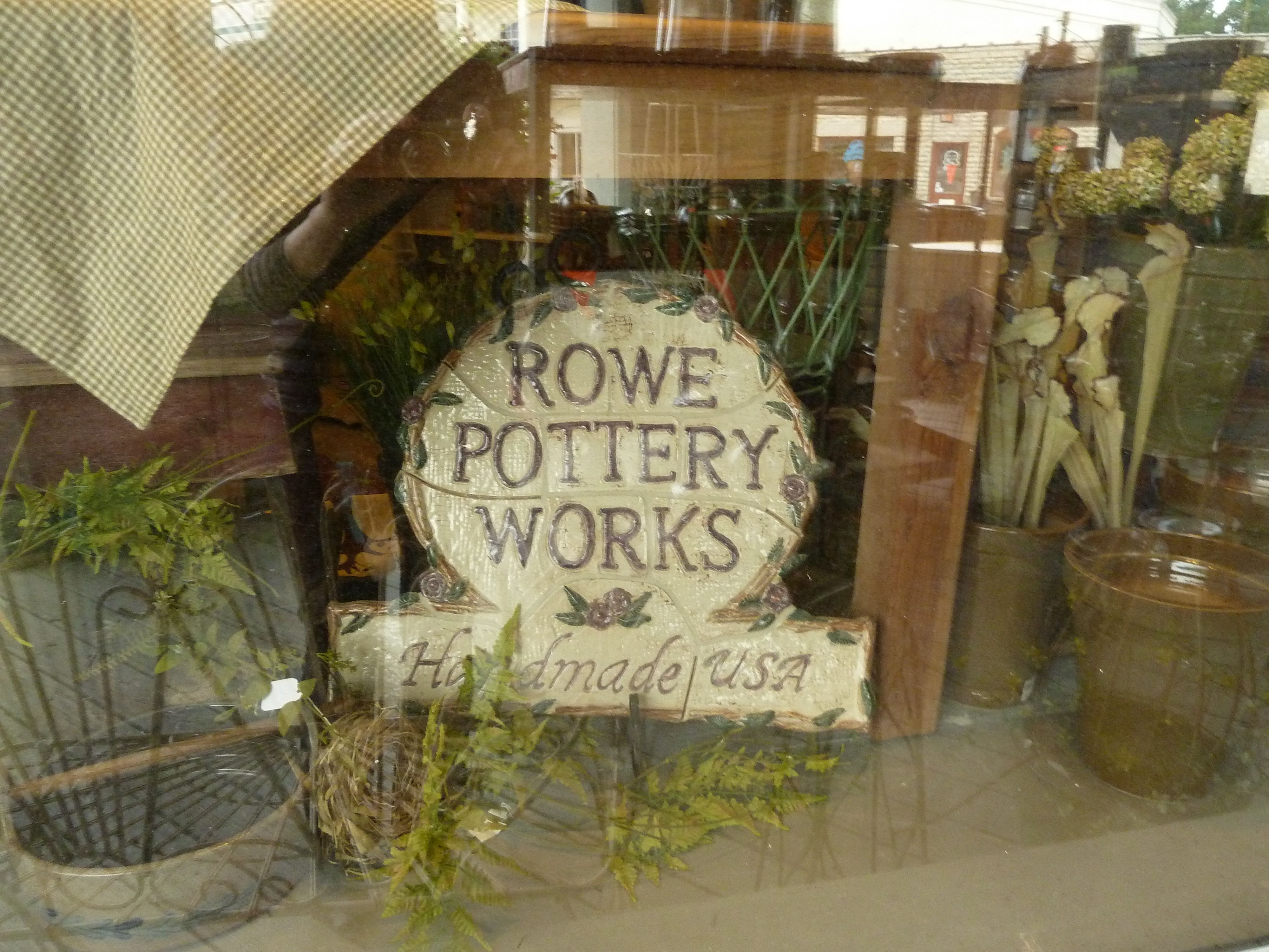 Rowe Pottery, a staple of downtown Cambridge, Wisconsin.